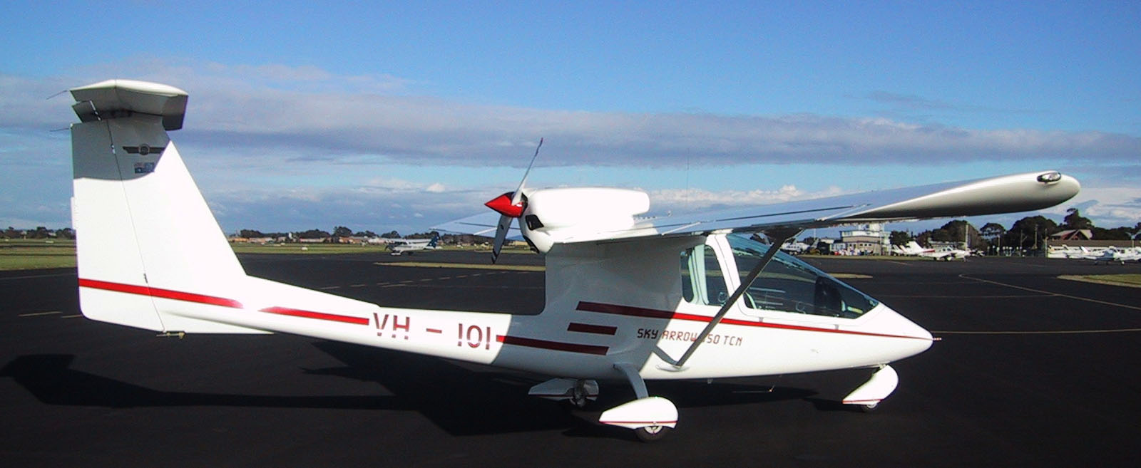 Sky Arrow 650 TCN Photo by Morgan Leigh. 2006.